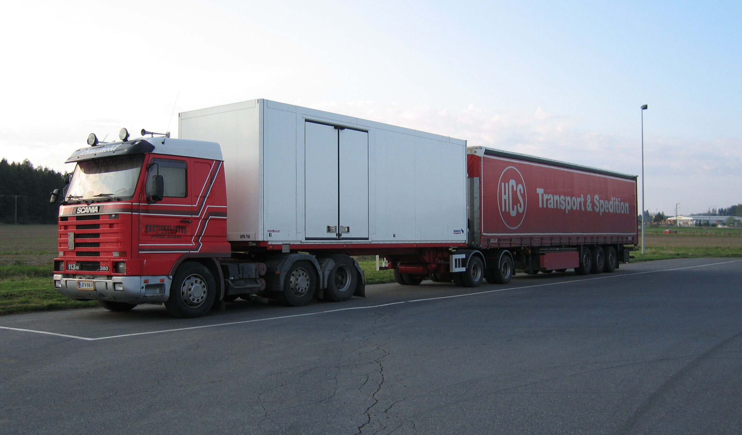 Scania 113 pulling two semitrailers (B-train). First semi-trailer has fifth wheel on sliding bogie to make coupling of second semi-trailer possible. Photograph taken at Humppila, Finland. Truck has 380hp engine and is equipped liftable and steerable mid-axle. This picture can be found in gallery Scania AB.